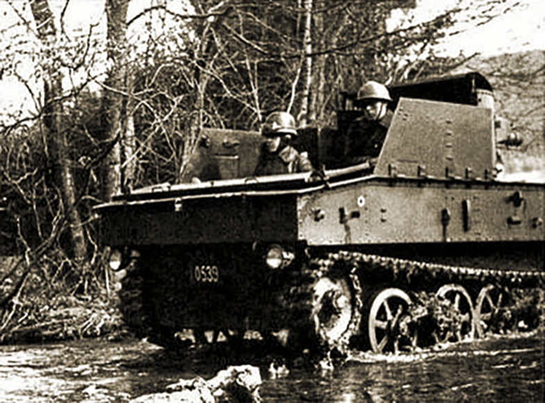 A T-13 B2 tank destroyer of the Belgian armed forces